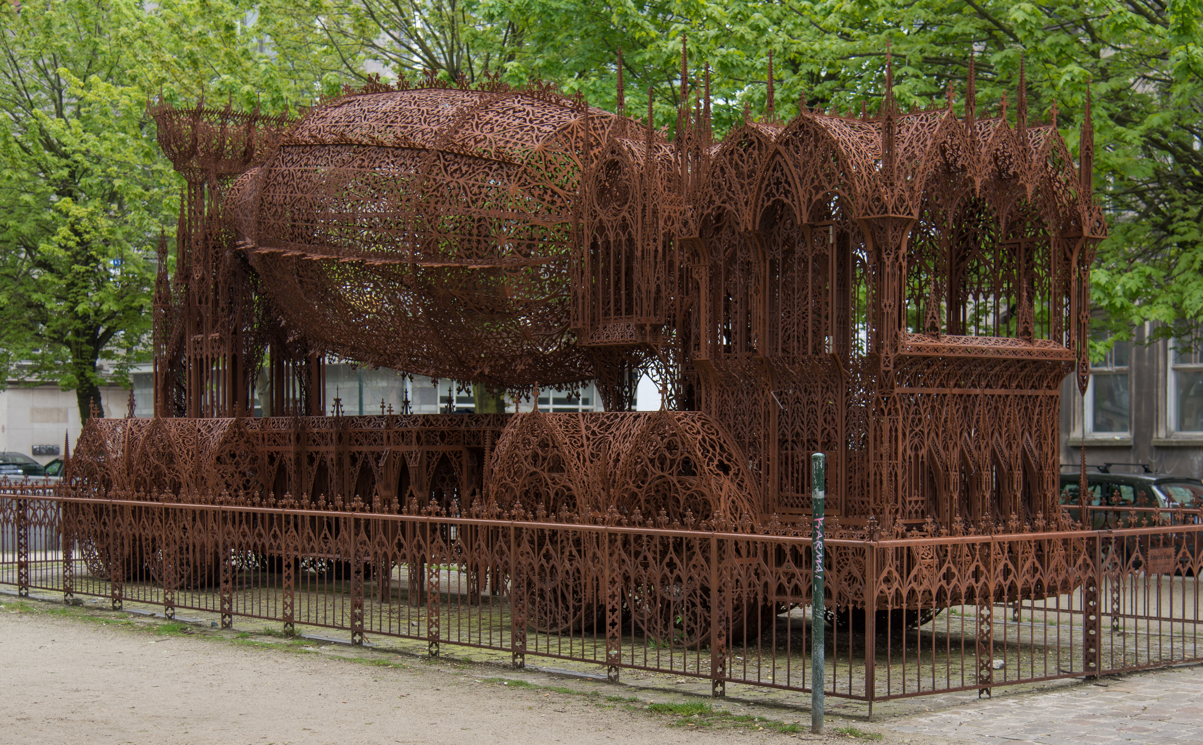 Brussels, Quai au Foin (Hoouikaai), "Cement Truck" installation by Wim Delvoye, installed November 2010.